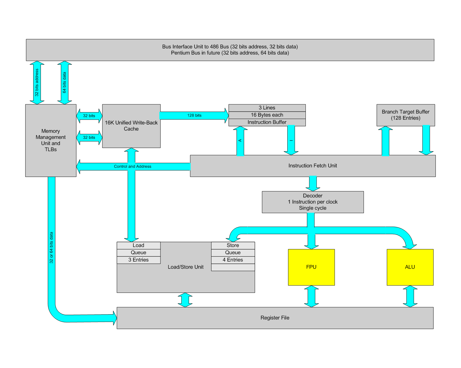 The Cyrix 5x86 architecture.